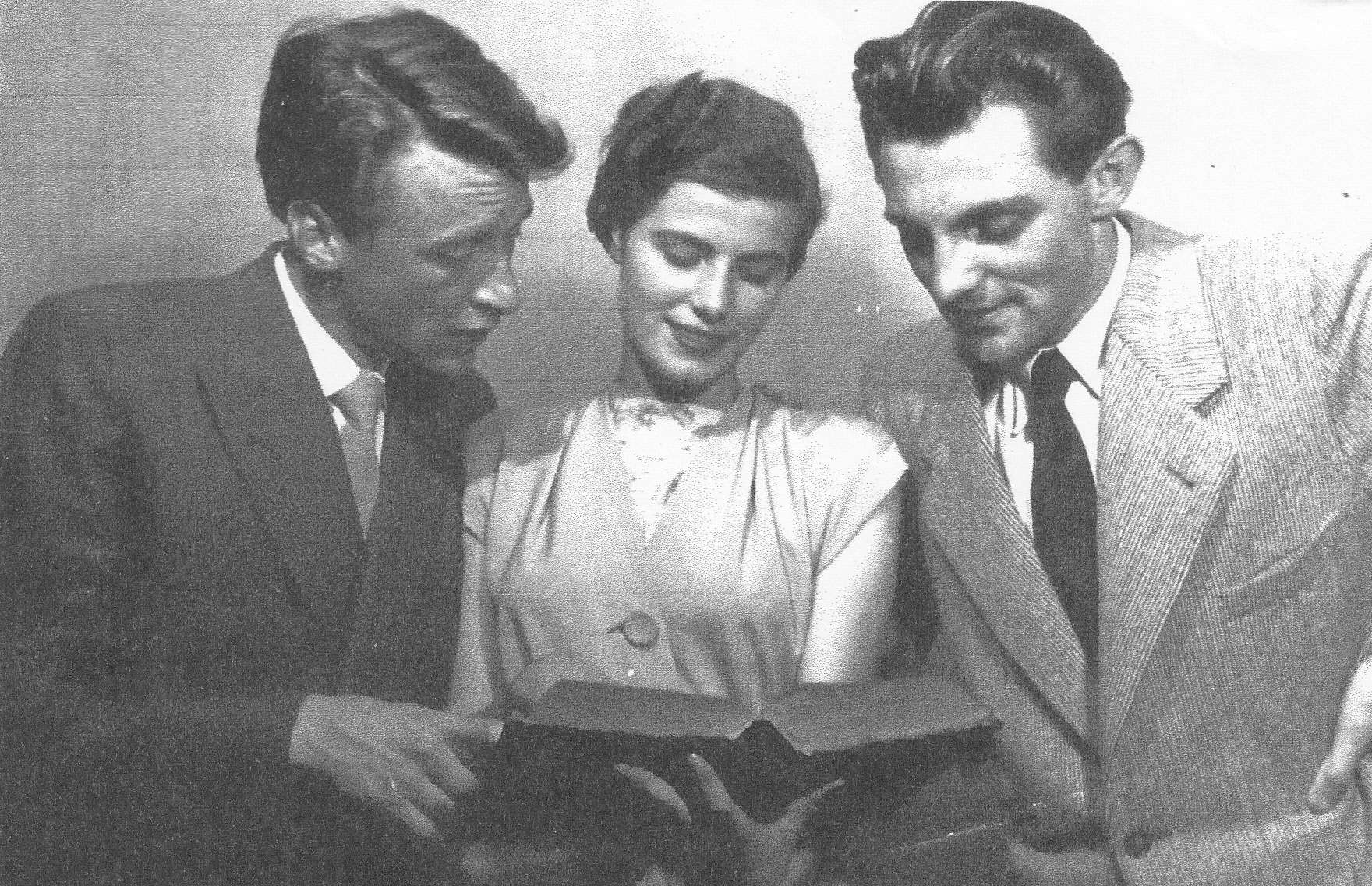 German Cabaret Die Buchfinken 1952: Günther Schramm, Karin Josefi, Dietrich Neuhaus